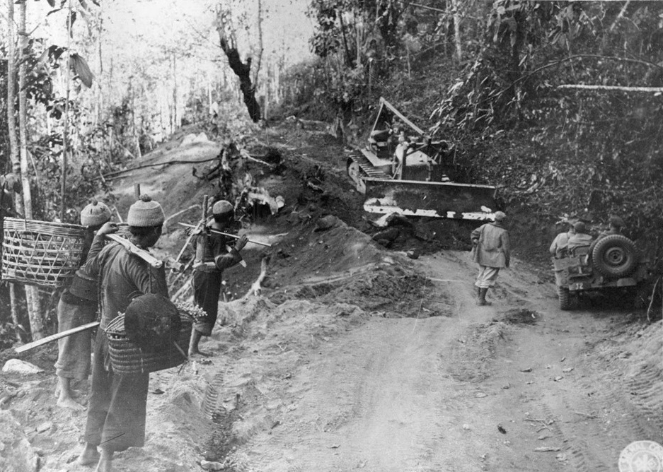 Cutting path through jungles for Burma road short-cut.A bulldozer of the US Army Burma road engineers opens a path through the jungle for the new Myitkyina–Tengchung dry weather short-cut joining the Ledo and Burma roads. Kachin and Chinese workmen, part of the 10,000 helping to build the road, will finish this section by hand toil with the most primitive tools. US Signal Corps photo CT-45-20828 from China OWI.